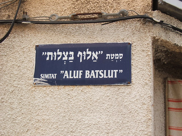 The sign of a alley in Tel Aviv, that keeps Bialik work "Aluf Batslut" name